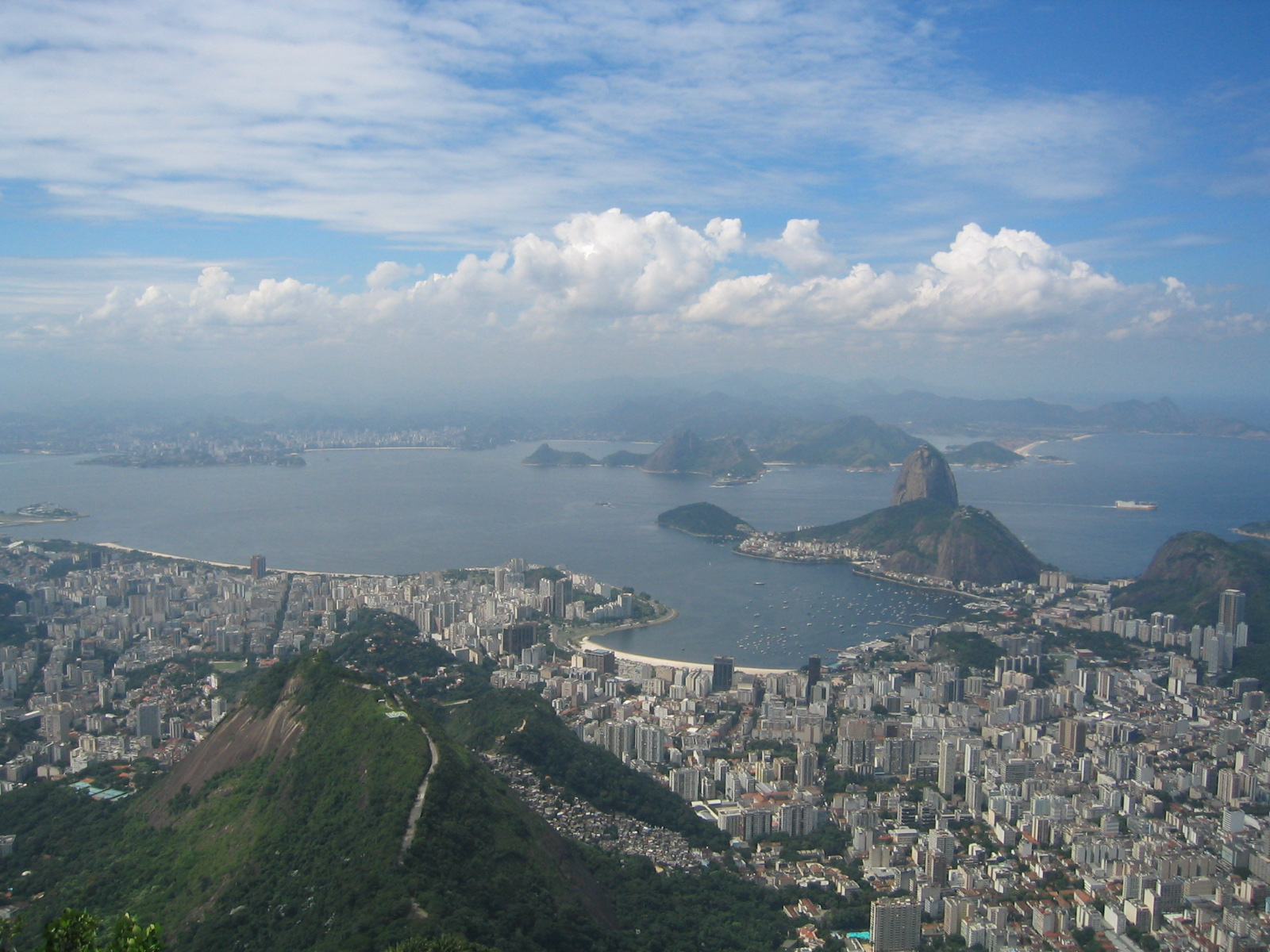 View of Rio de Janeiro and Guanabara Bay from Corcovado Mountain. April 2005